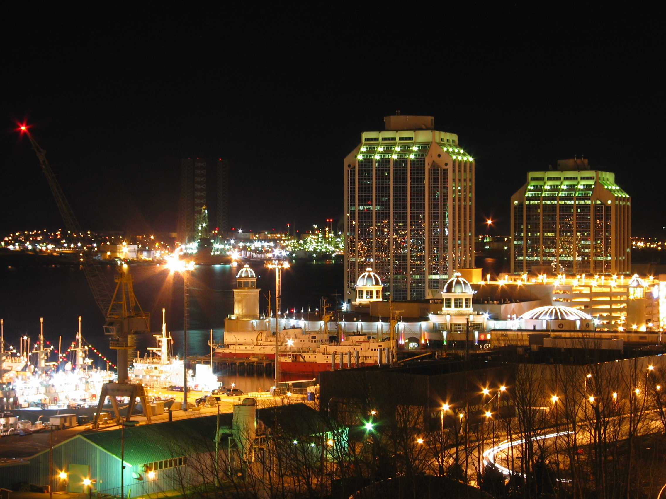 The Halifax Casino and Purdy's Wharf in Halifax, Nova Scotia.